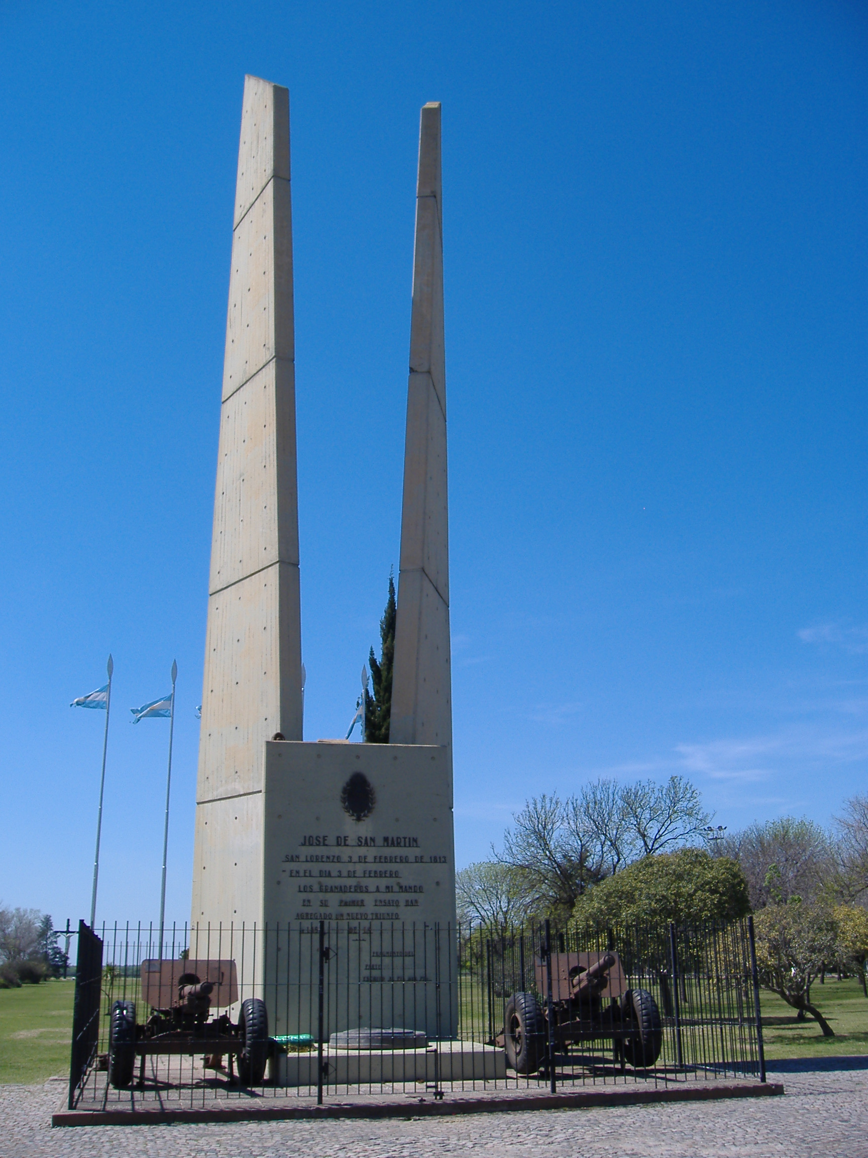 Monument to José de San Martín and the Mounted Granadiers Regiment, commemorating the Battle of San Lorenzo (1813), in the Glory Field (Campo de la Gloria), San Lorenzo, Santa Fe, Argentina, by the Paraná River.